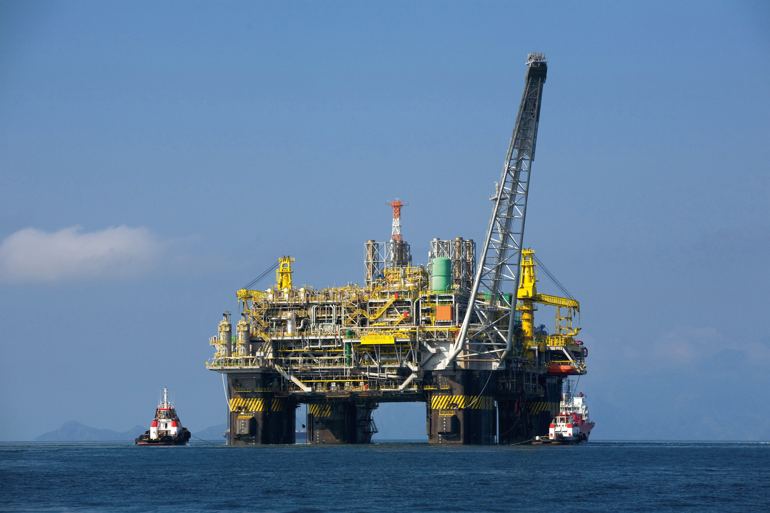 Brazil - The first 100% Brazilian oil platform, the P-51 will produce about 180 thousand barrels of oil and 6 million cubic meters of gas per day when operating at full load.